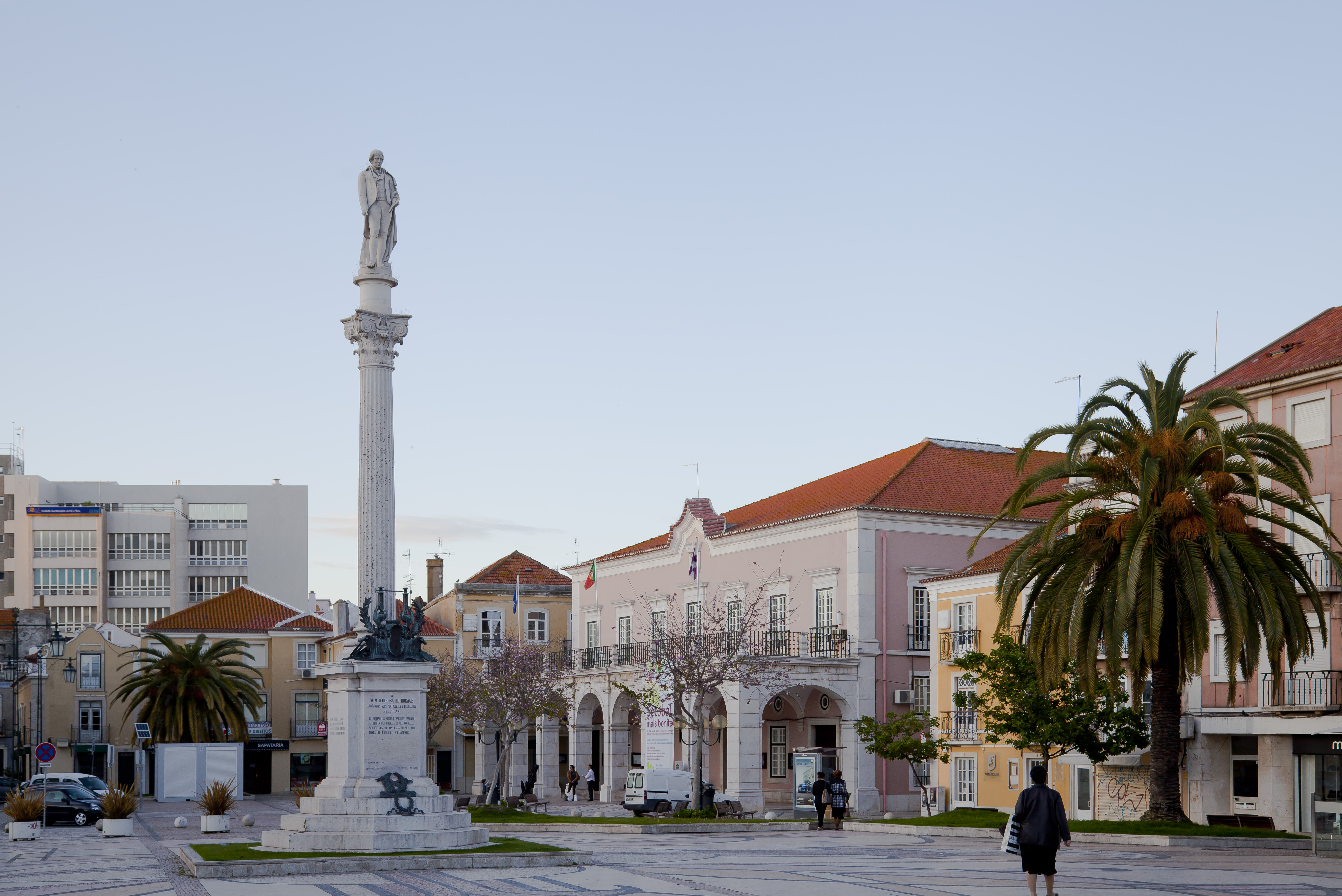 City hall square, Setubal, Portugal